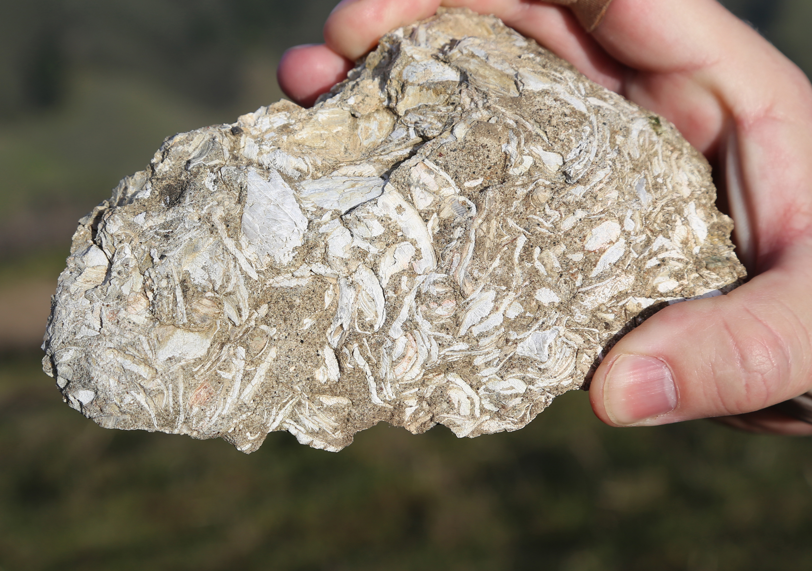 Small rock showing many compressed fossils. On Rocky Ridge, Las Trampas Regional Wilderness, East Bay area, California.